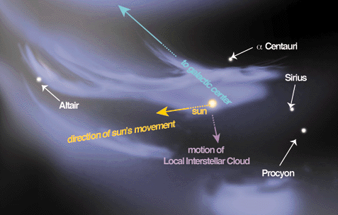 Diagram of the Sun's interaction with the Local Interstellar Cloud.